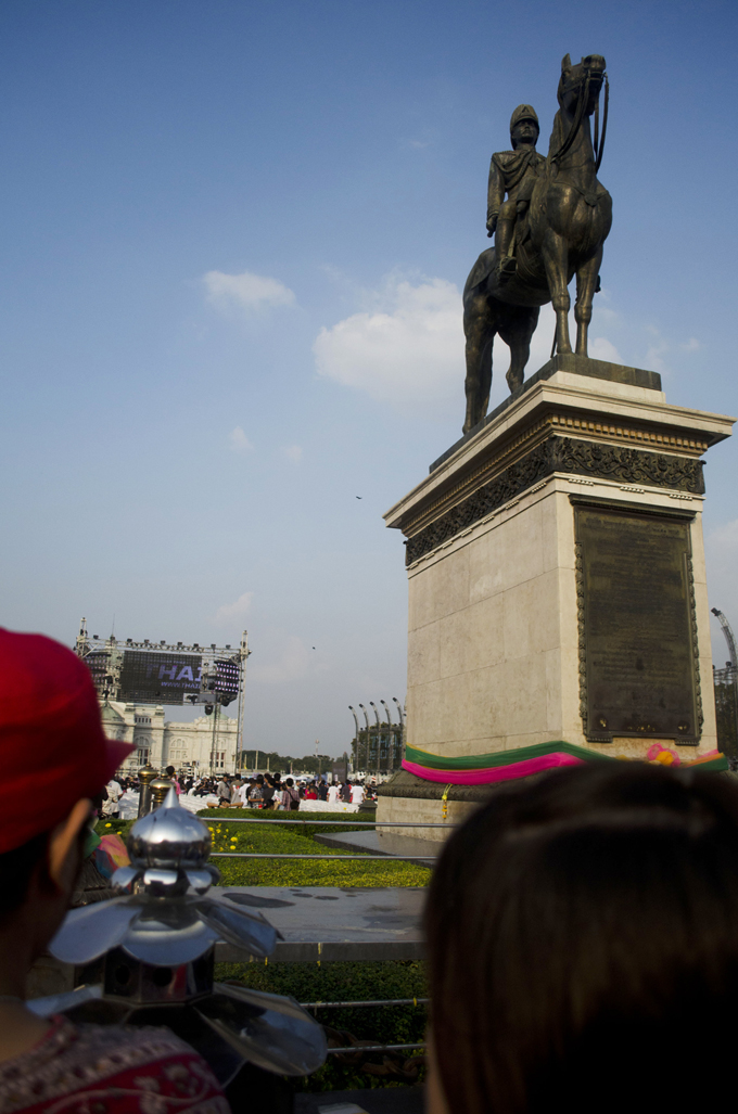 THAI FIGHT